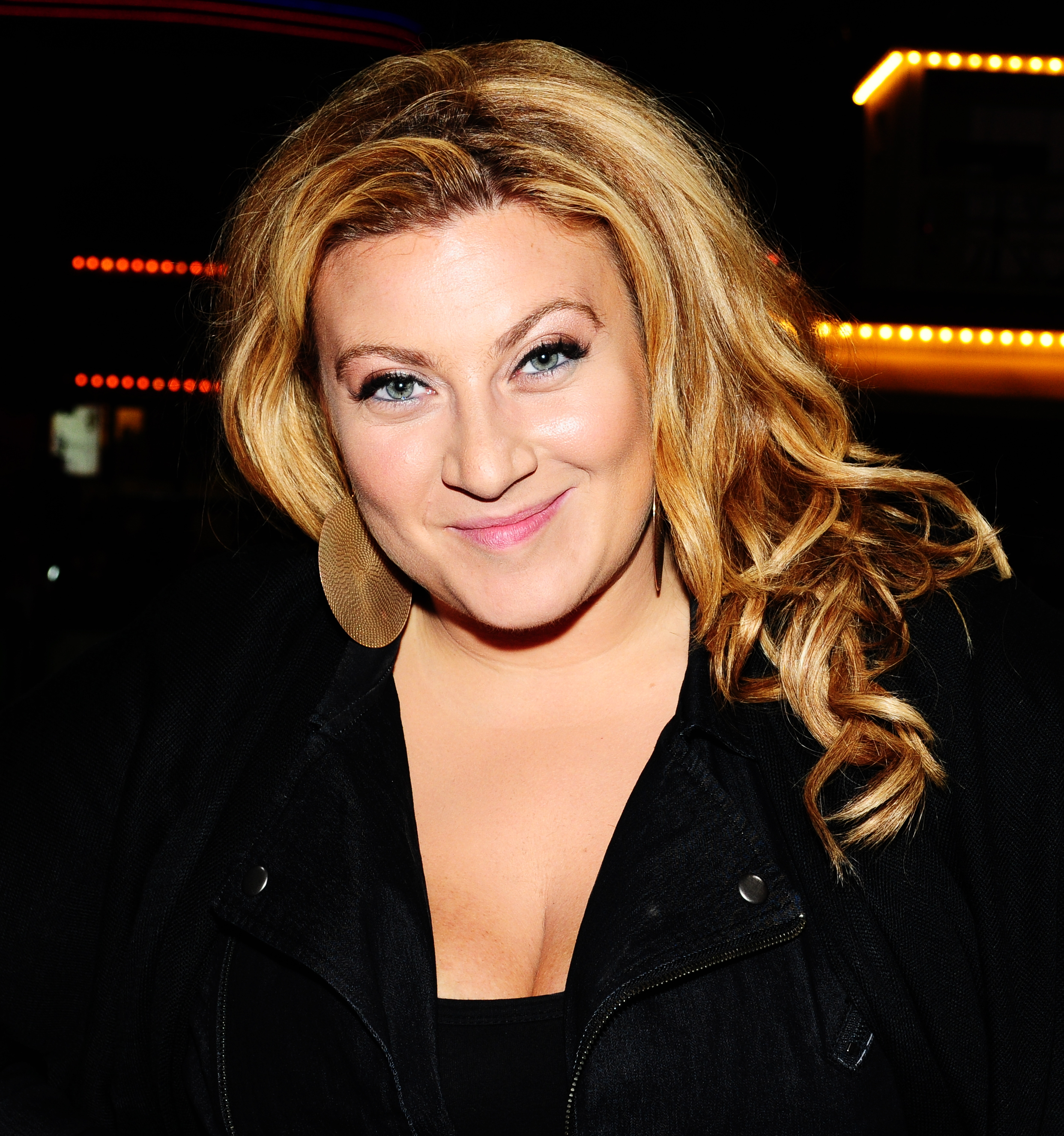 Sarah Dawn Finer at the TV program Sommarkrysset.